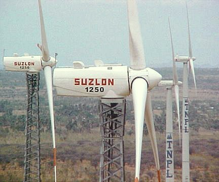 Tamilnadu Newsprint & Papers Limited (TNPL)'s 4 X 3.0 MW Windmill and 3 X 1.25 MW Windmill Located at Devarkulam wind farm, Tirunelveli, Tamilnadu, India.